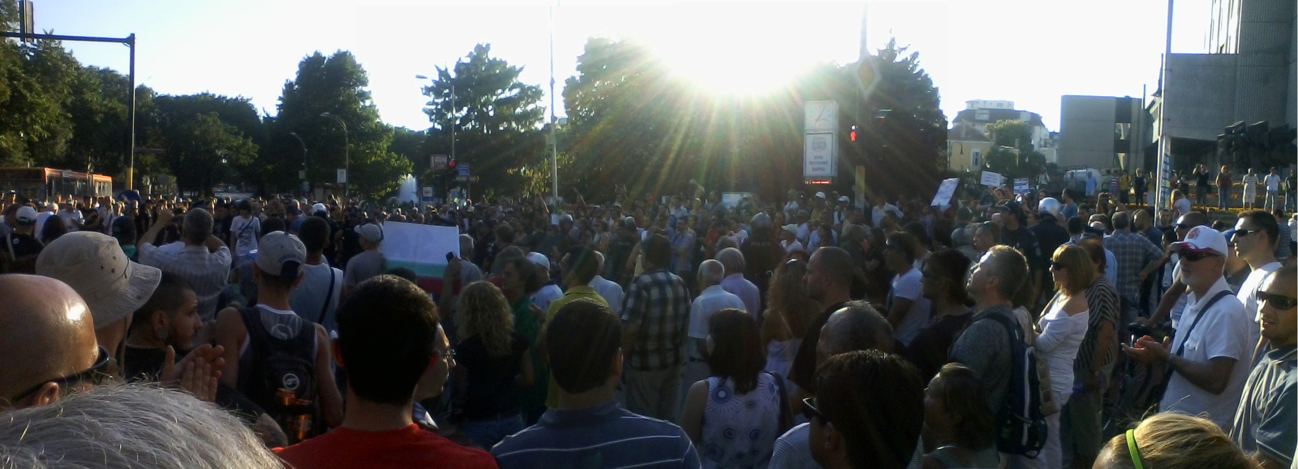 Okupirai_Varna_3_7_2012